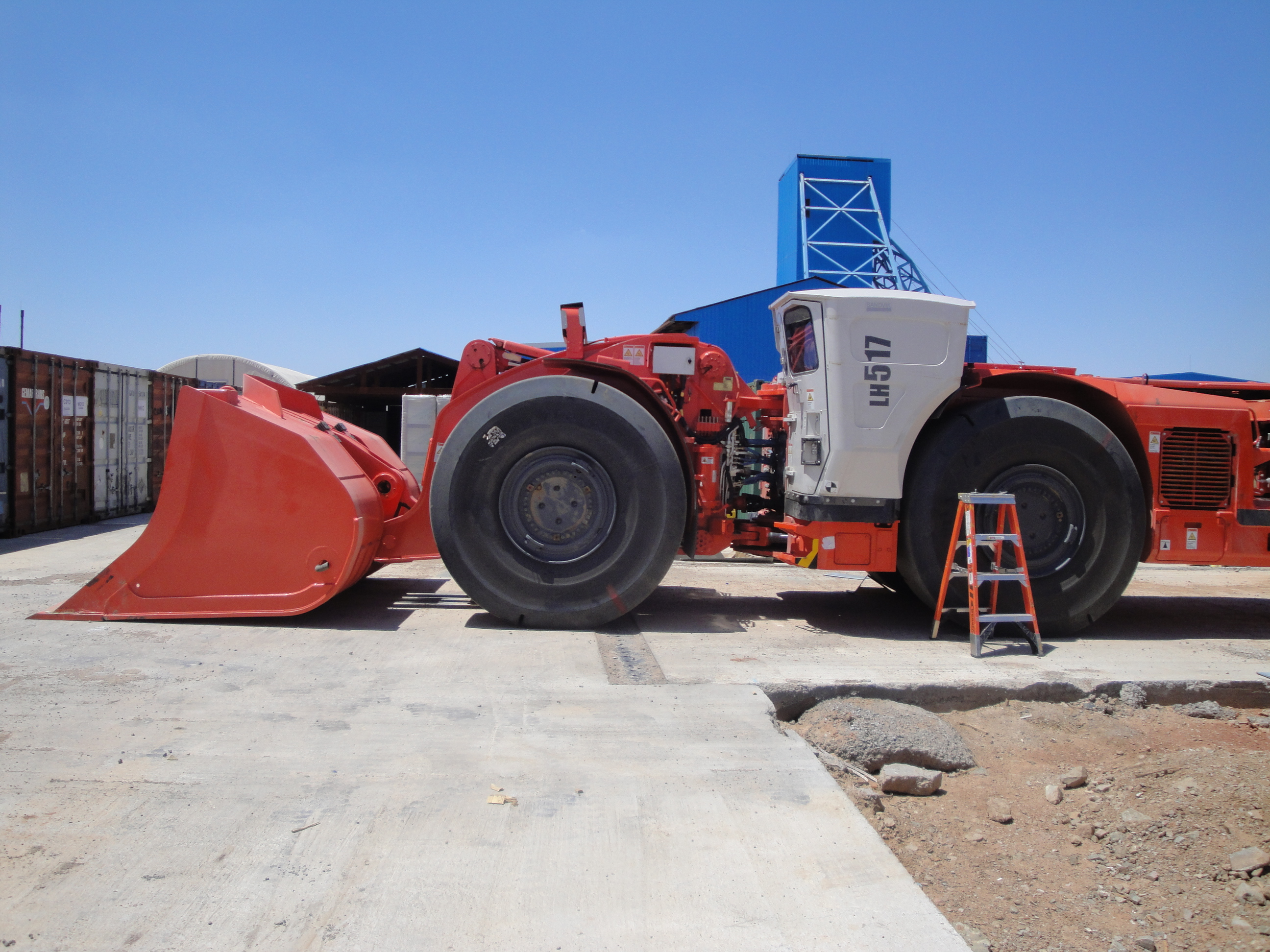 A Sandvik LH517 LHD (loader used for underground mining).